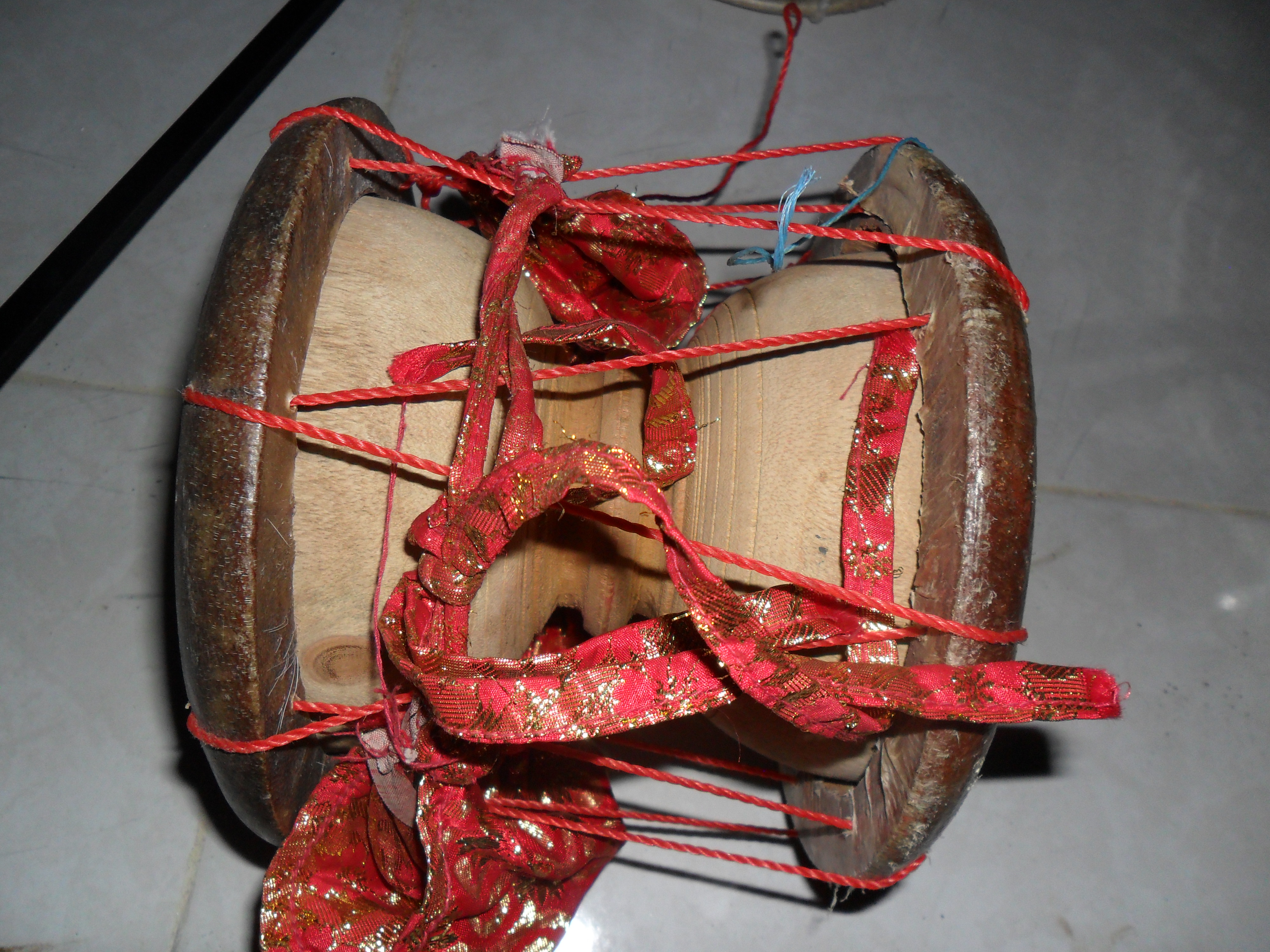 Musical instrument (Udukku)